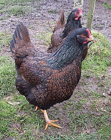 Barnevelder, double-laced, large fowl hens, 25 weeks old.